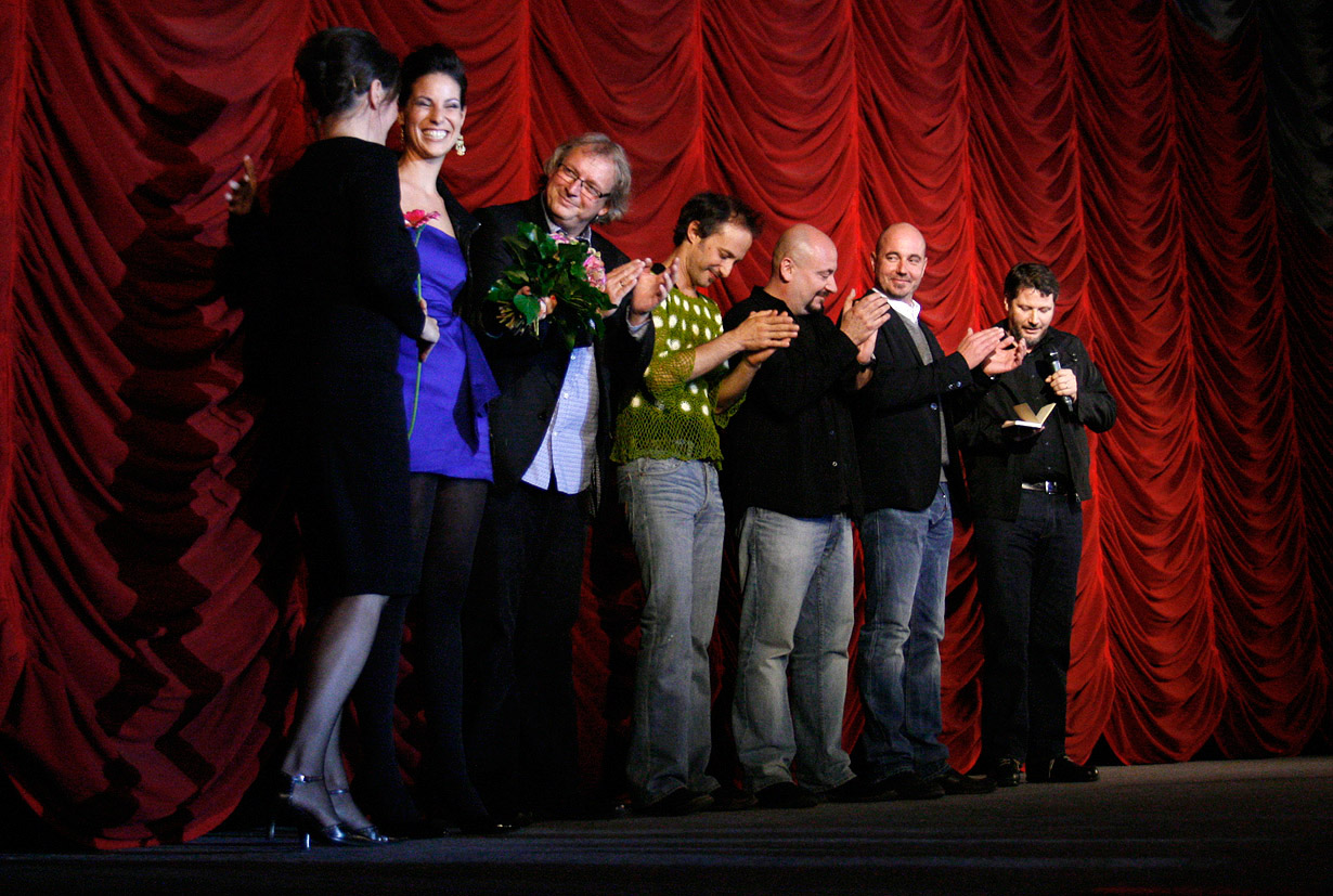 Danny Krausz, Michael Ostrowski, Uwe Lubrich, Alfred Schwarzenberger, Andreas Prochaska and further members of the film crew at the premiere of the movie Die unabsichtliche Entführung der Frau Elfriede Ott at the Gartenbaukino in Vienna.